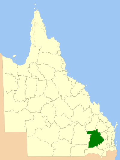 Location of the Local Government Area in Queensland